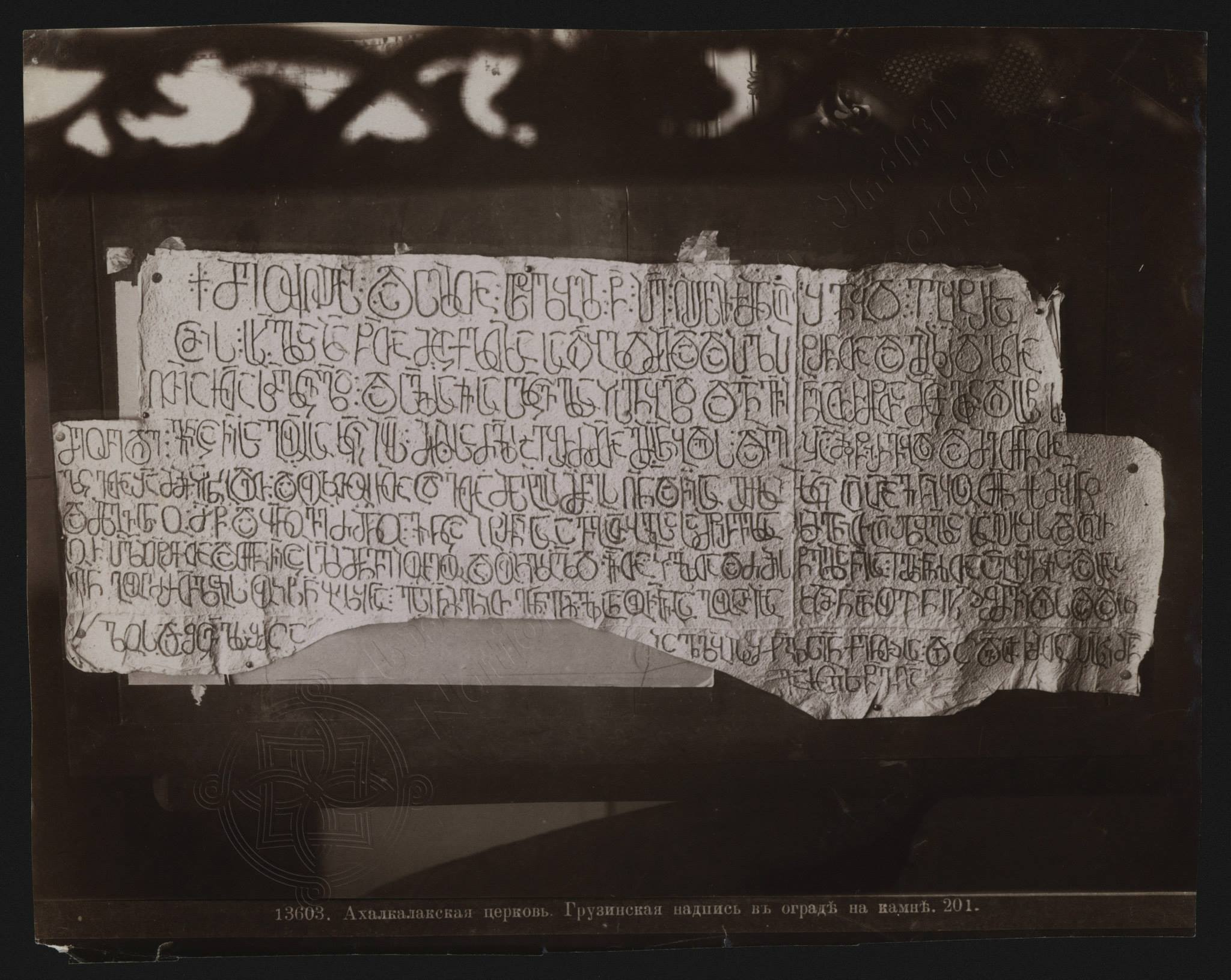 Akhtala church wall writing (mistake in name - Akhalkalaki church)